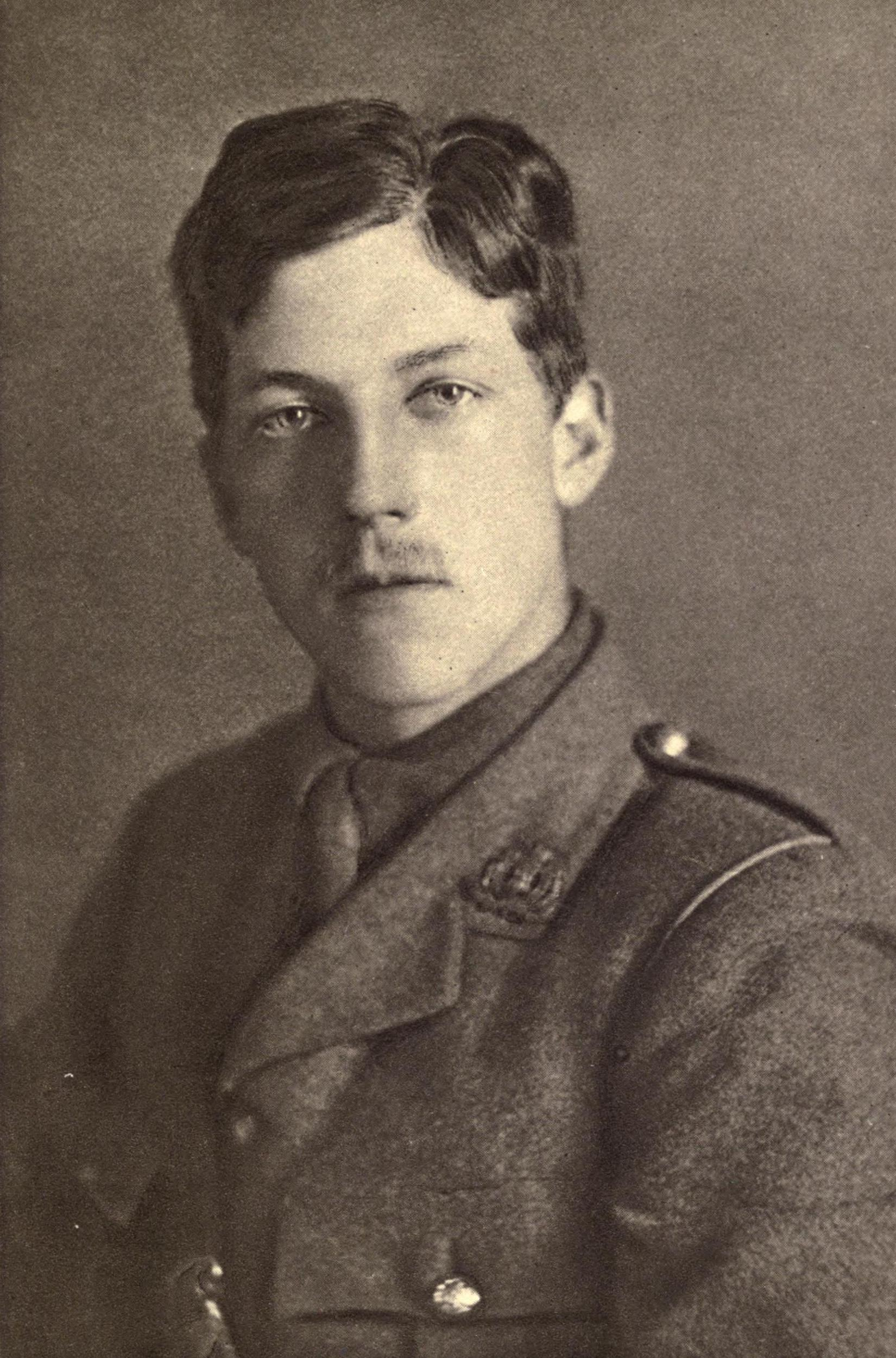 Cropped and retouched version of a portrait of British soldier poet Charles Hamilton Sorley (1895-1915). Photo dated to 1914 or 1915 as subject is in uniform and enlisted in 1914 and was killed in 1915.